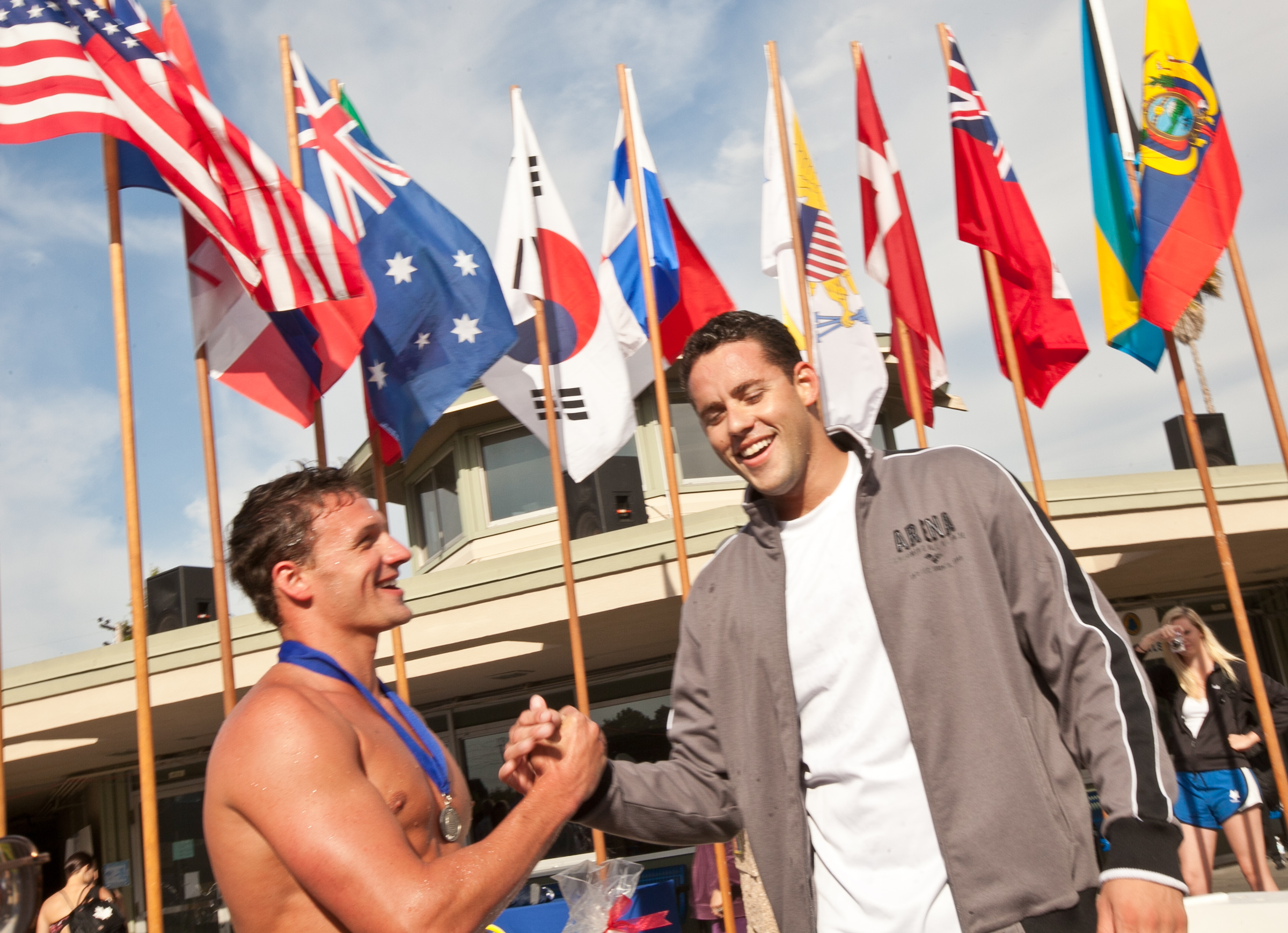 Ryan Lochte congratulates Thiago Pereira after Pereira won the 400 IM.